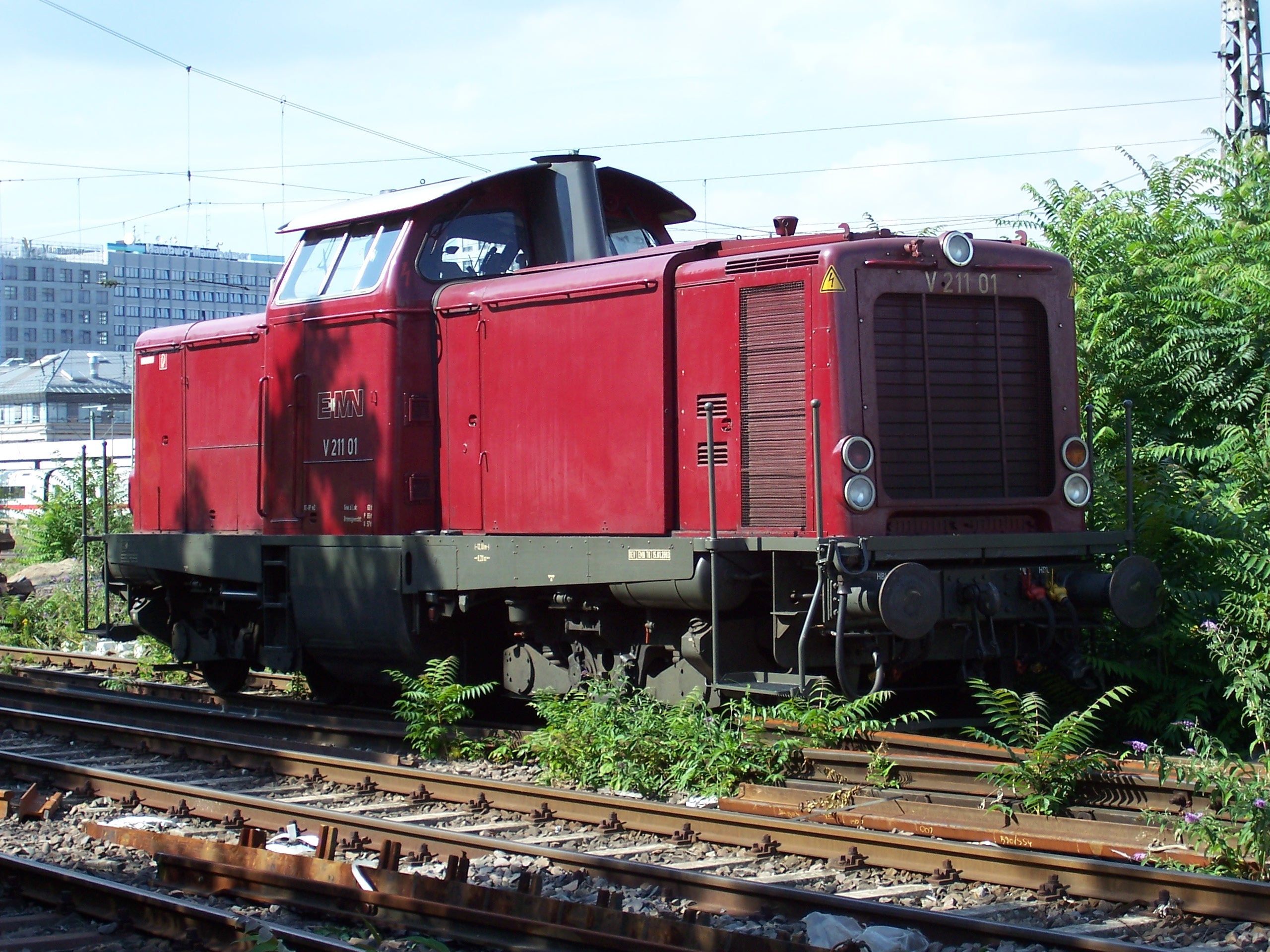 Diesel locomotive EMN V 211 01 (former DB V 100 1031) in Mannheim, Germany My own photo from 21-jul-2005